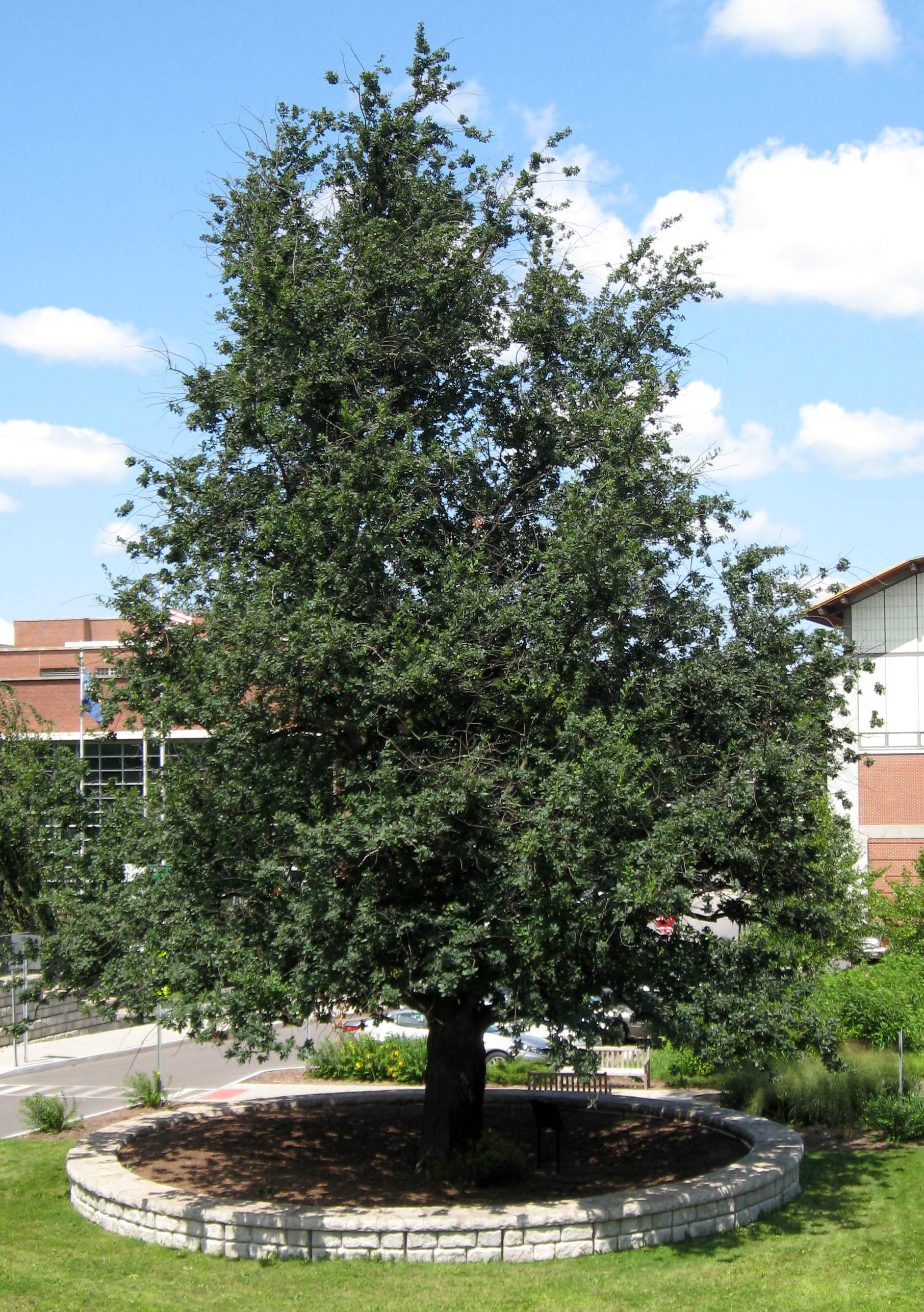 The 'Robin Hood Oak' (Q. robur), direct descendant of Major Oak, of Sherwood Forest, England, at the SUNY College of Environmental Science and Forestry, Syracuse, NY